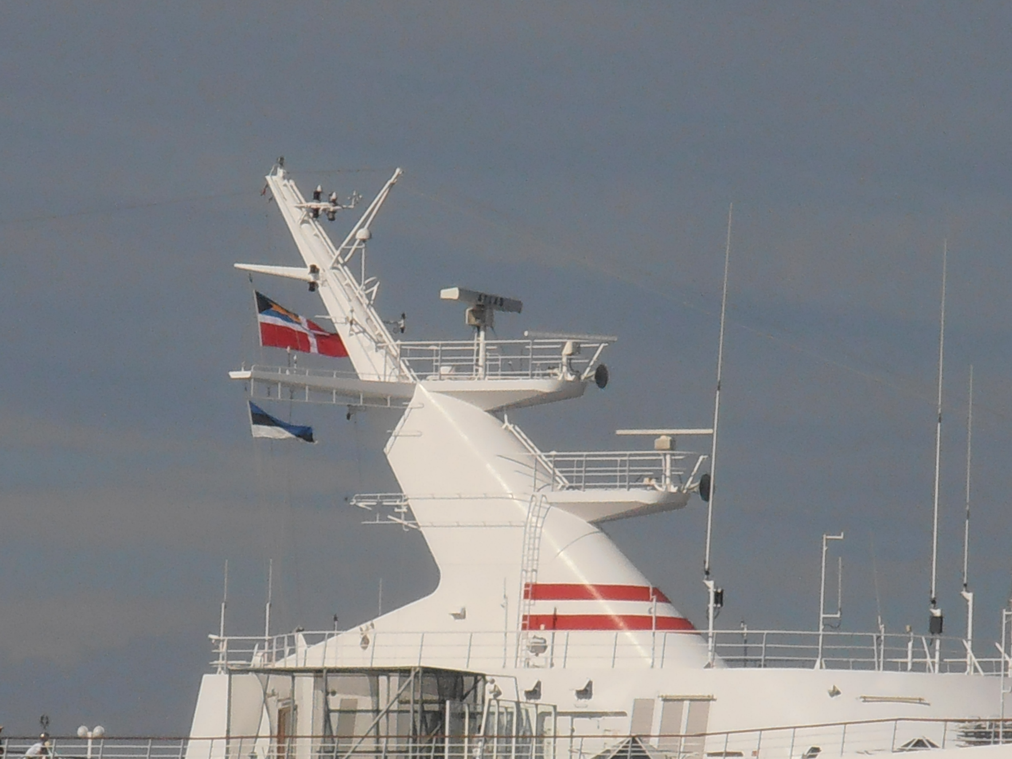 Crystal Symphony Top Tallinn 26 July 2012